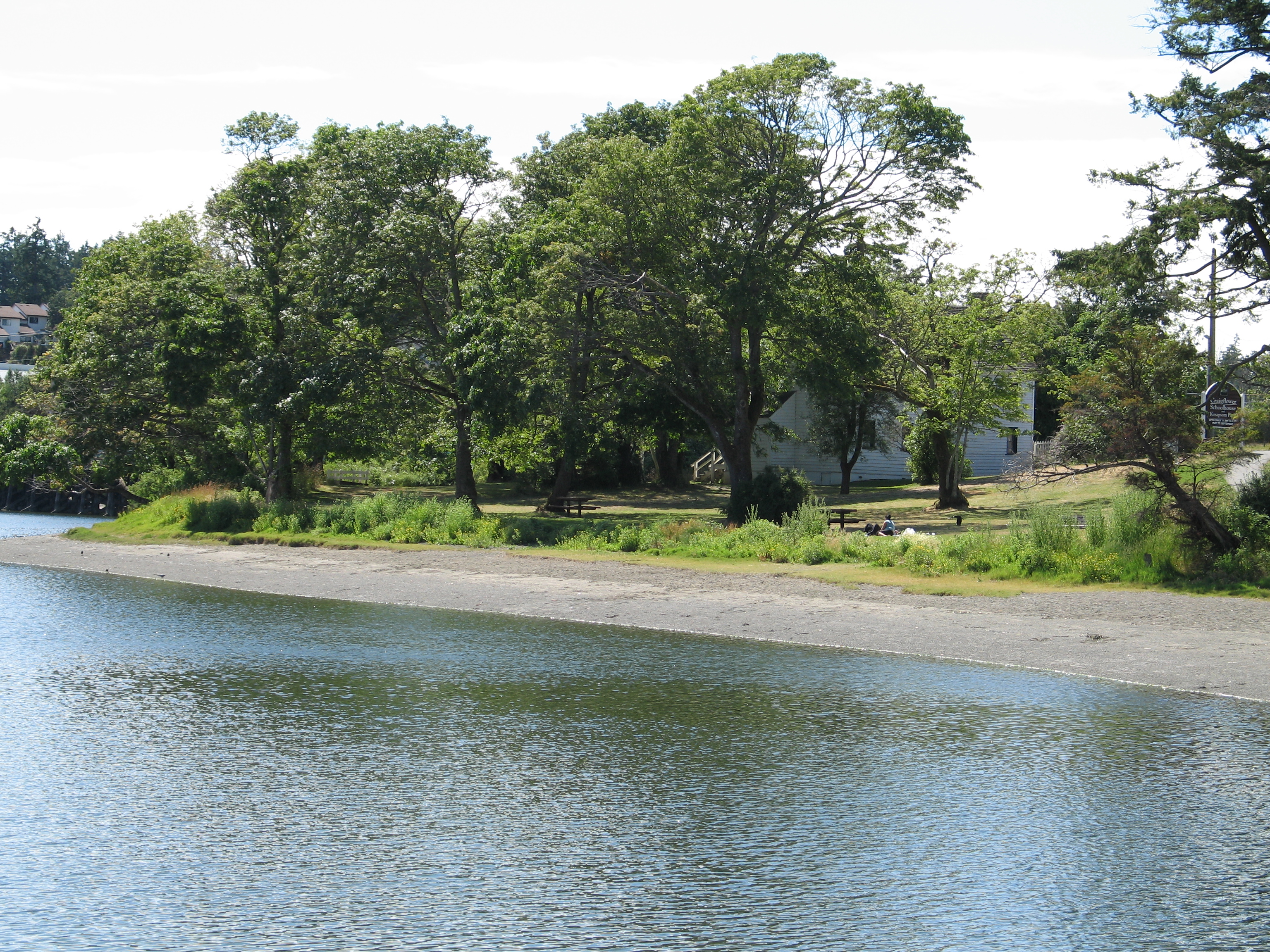 A shot of Kosapsom Park, including Craigflower schoolhouse, taken on approach along the Gorge Waterway from the east. The Craigflower manor house is location 200 metres to the southwest on the opposite side of the Gorge waterway.